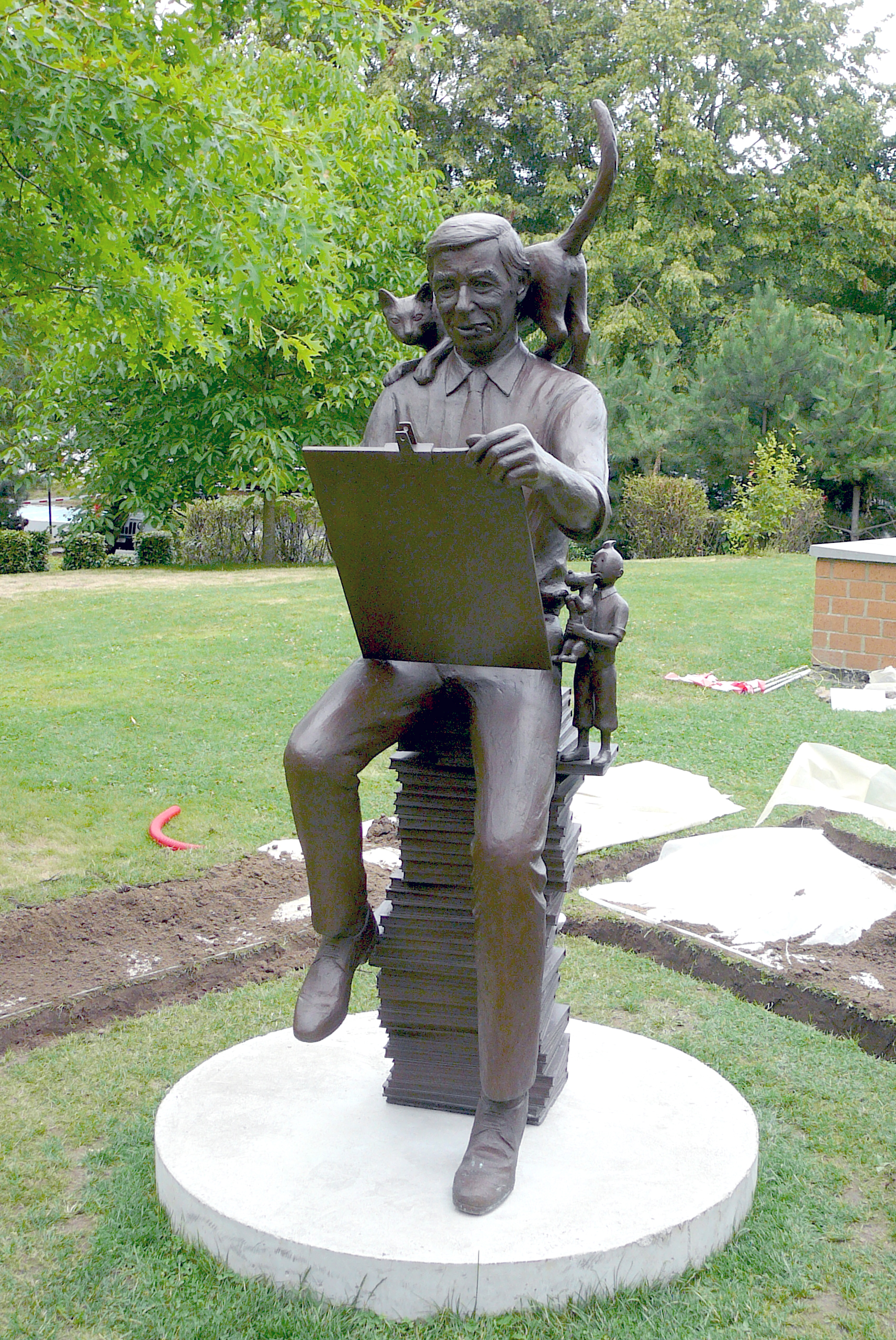 Statue of the Belgian cartoonist Hergé, with his cat and the charaters of Tintin and Snowy by Tom Frantzen, closed to Hergé Museum, in Louvain-La-Neuve, in Belgium